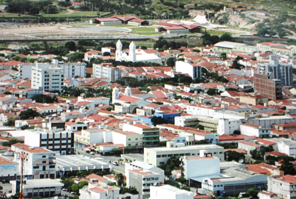 Caicó - RN, Brasil